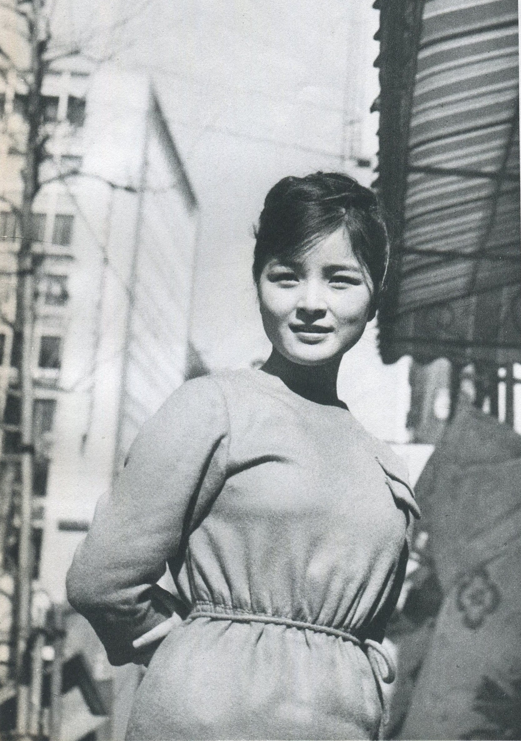 Portrait of the actress Chieko Baisho (1962)